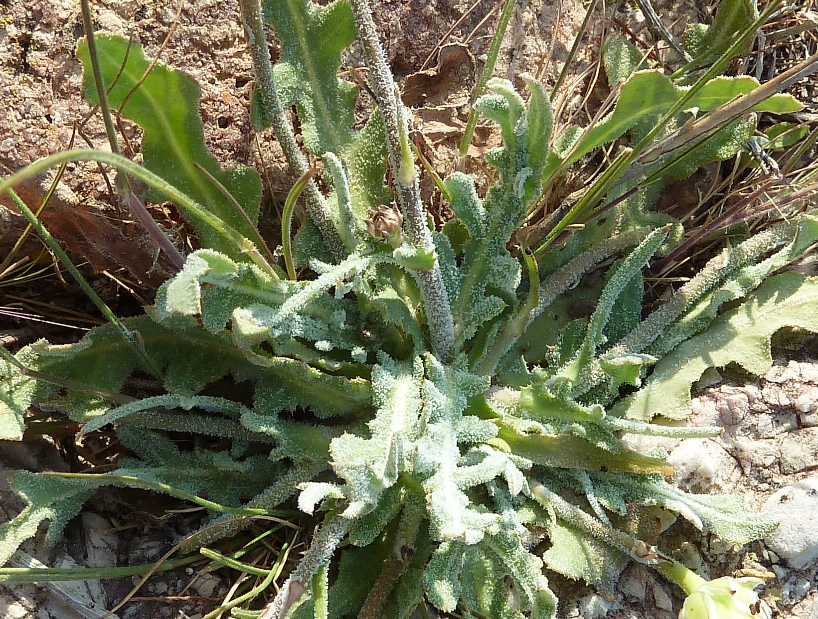 Reichardia tingitana (cosconilla, lechuguilla dulce) - Detalle de las hojas cubiertas de finas pústulas blancas tipicas de esta especie y otras del género - Cabezo de las Fuentes/de los Ojales, circa geodésico 62m, Albatera (Alicante, España).